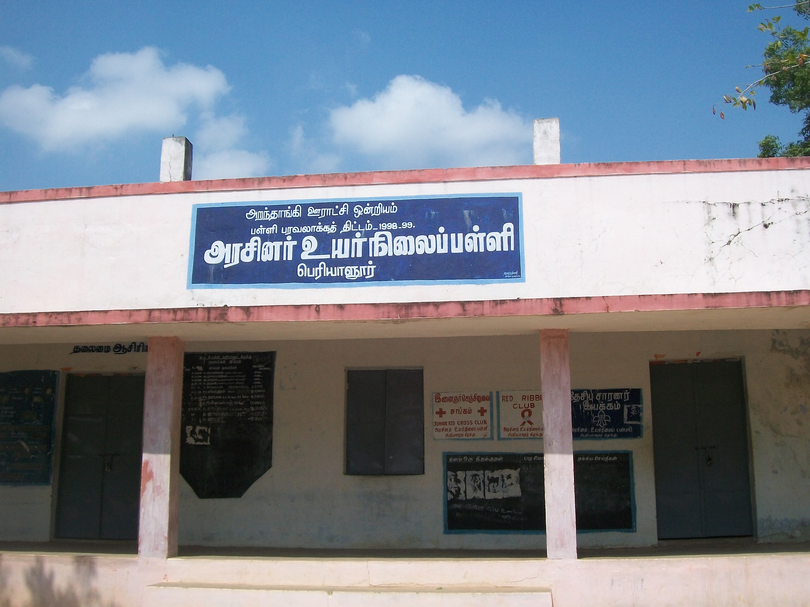 Government high School up to 10th Standard